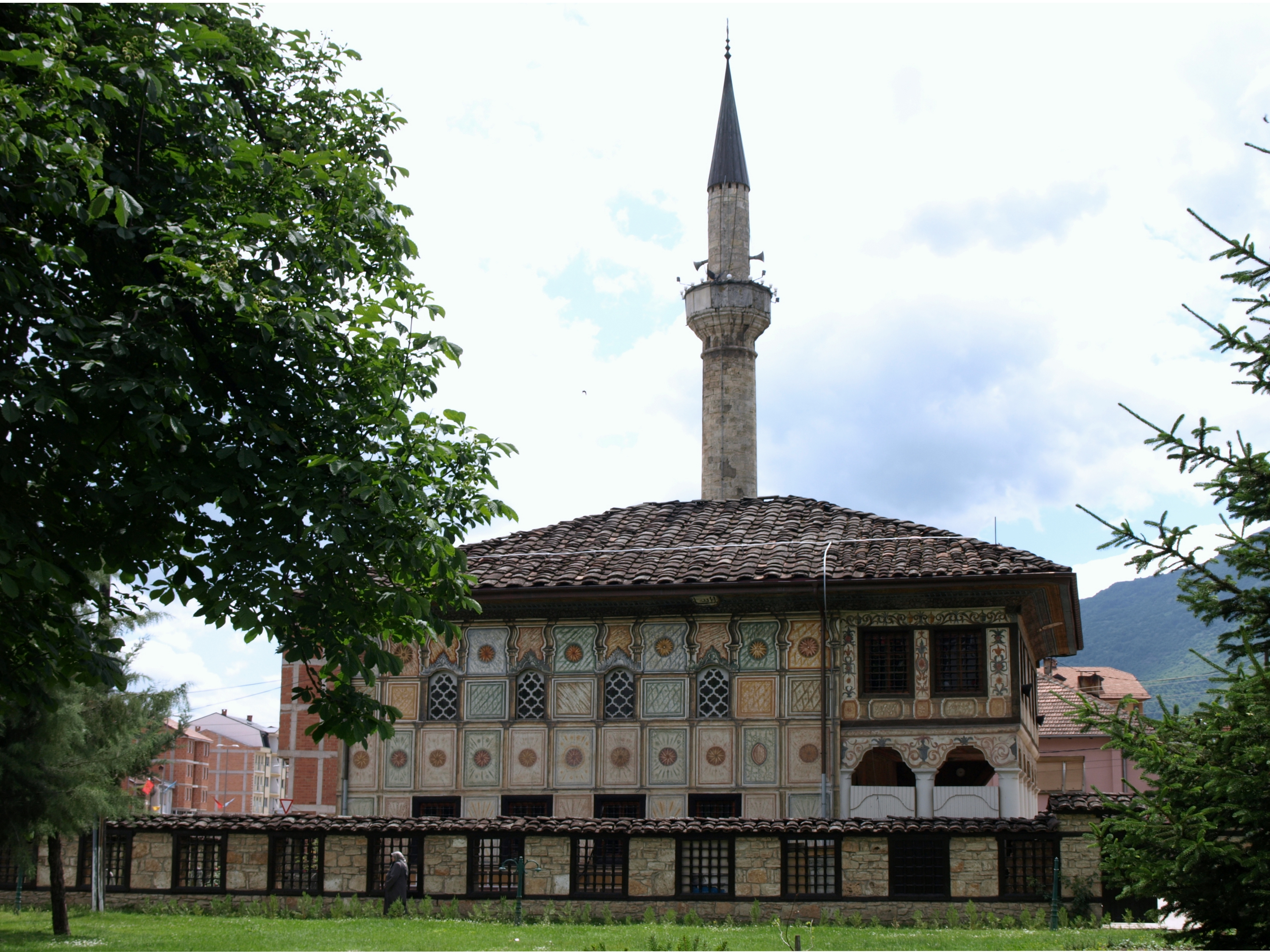 Šarena_Džamija mosque, Tetovo, Republic of Macedonia.